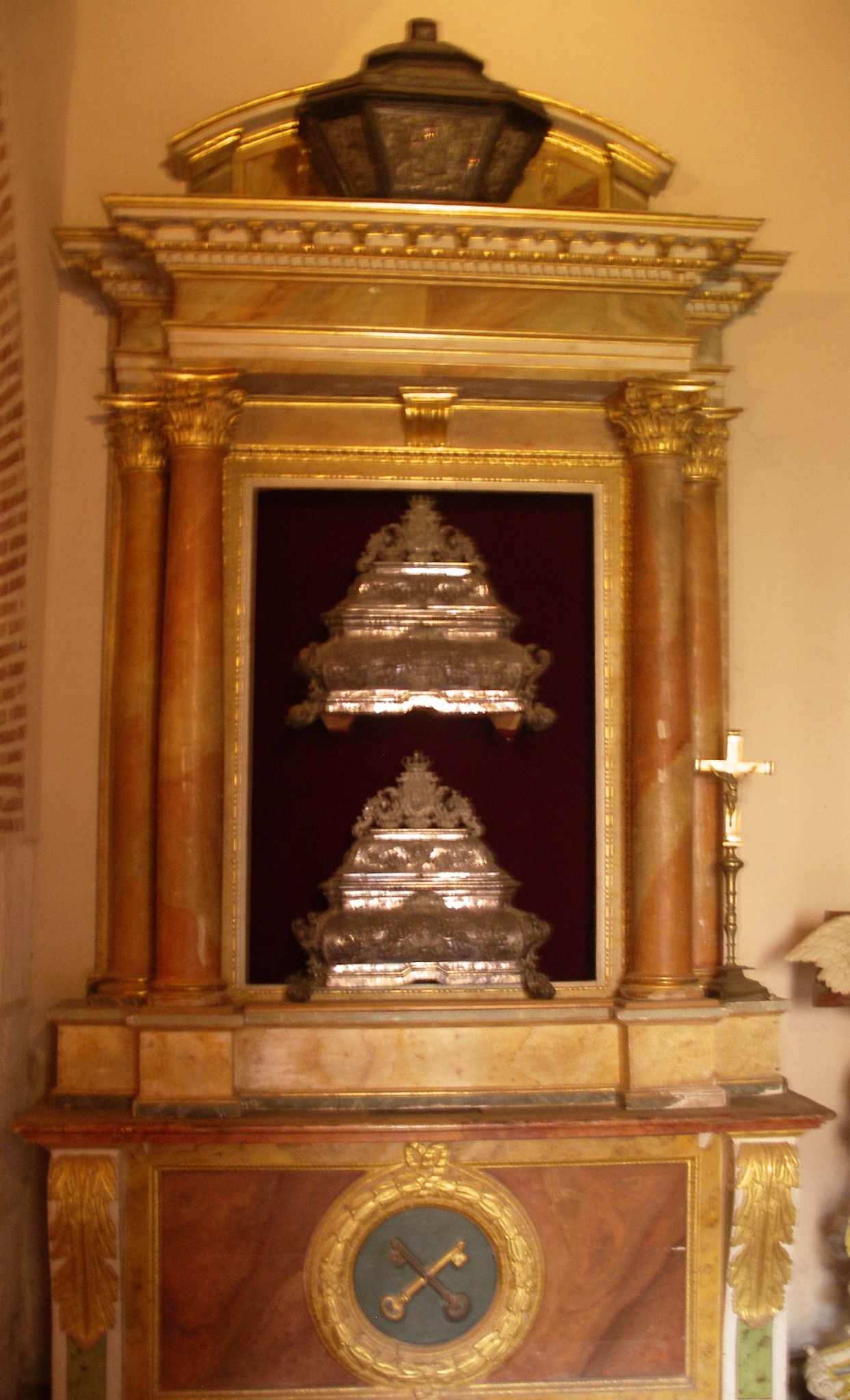 Reliquiaris dels sants Garcia (a dalt), Pelagi, Arseni i Silvà d'Arlanza, a la col·legiata de Covarrubias, procedents del monestir de San Pedro de Arlanza.